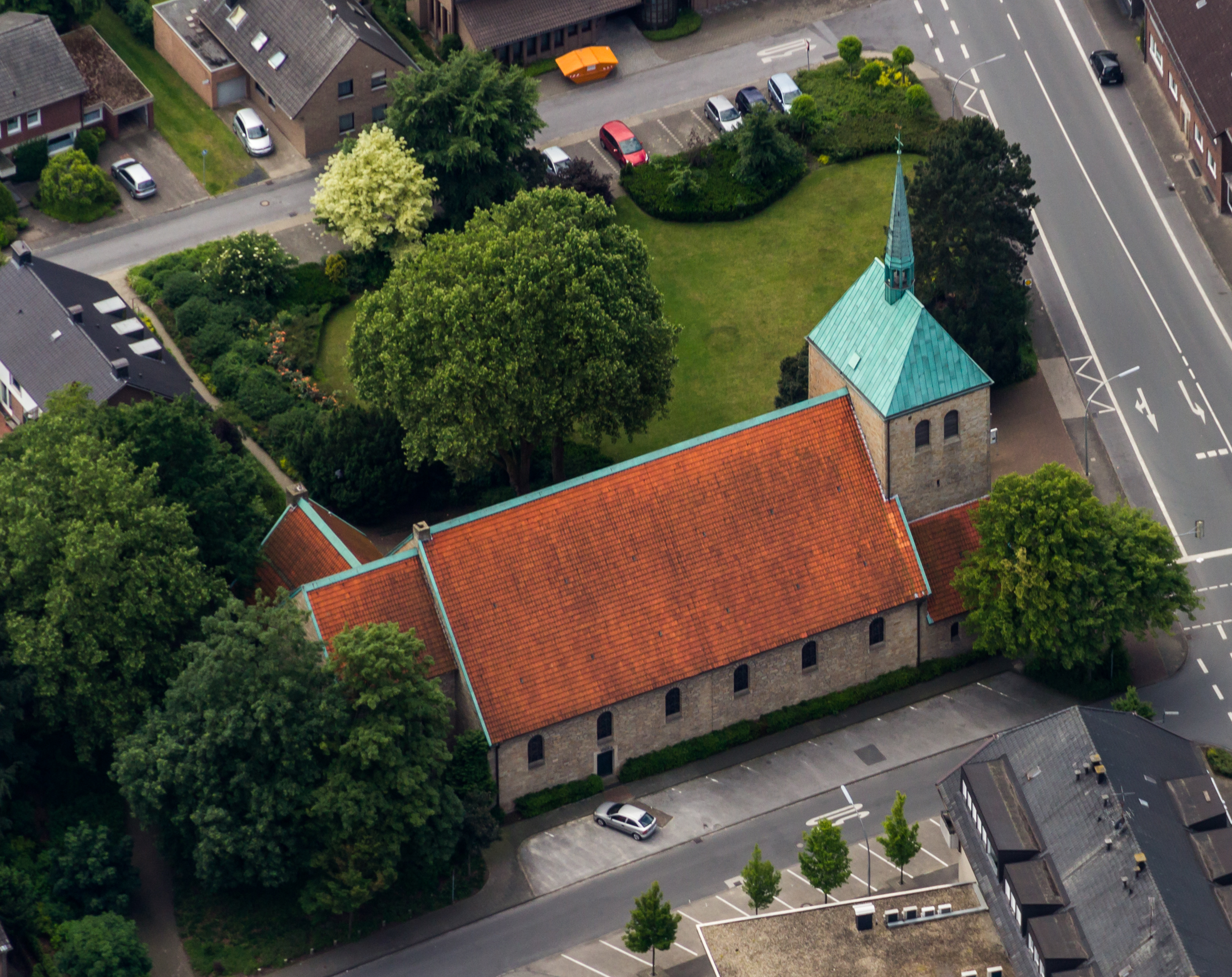 St. Joseph Church, Warendorf, North Rhine-Westphalia, Germany